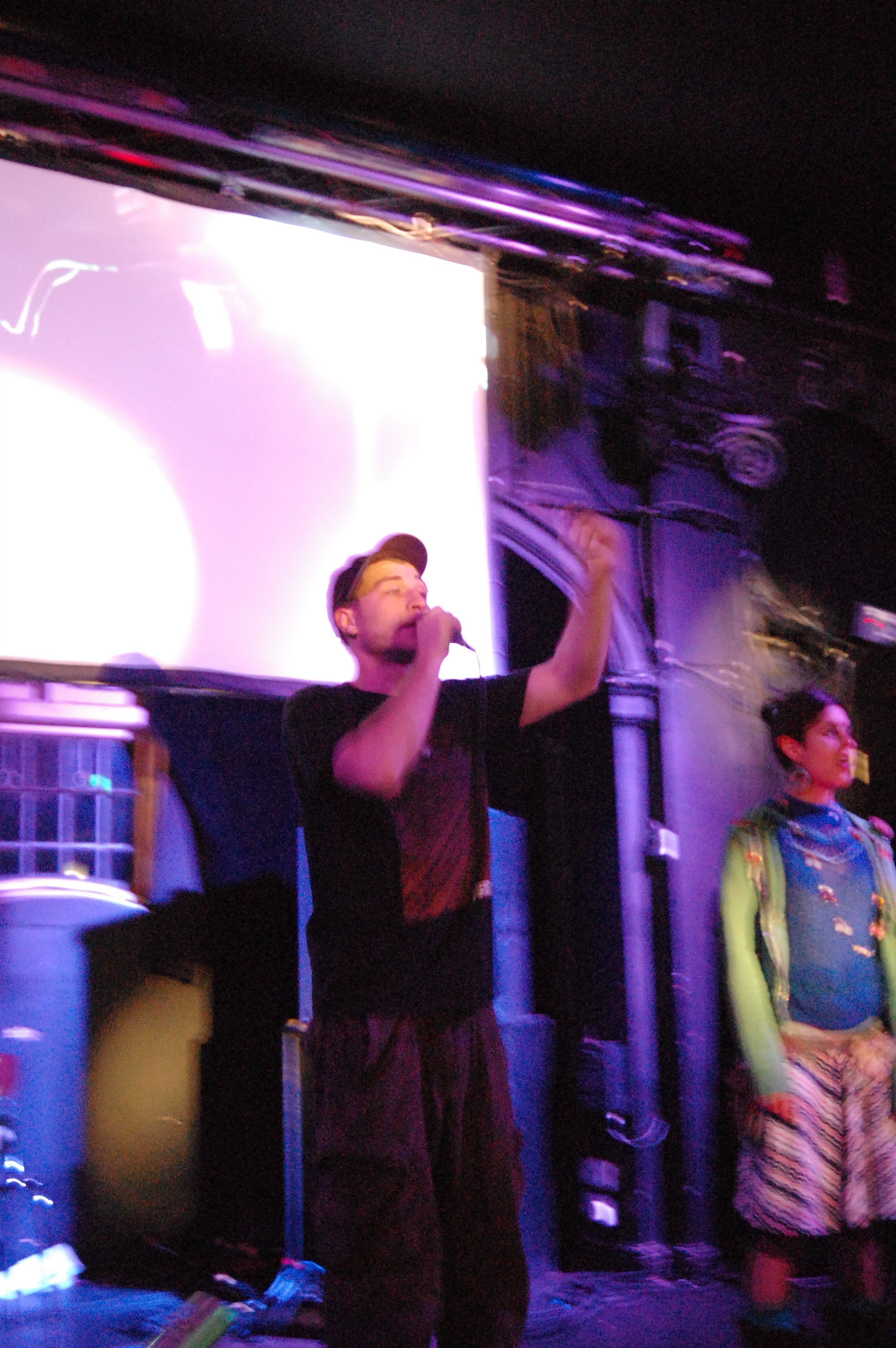 Dub Fx & Flower Fairy on the live stage